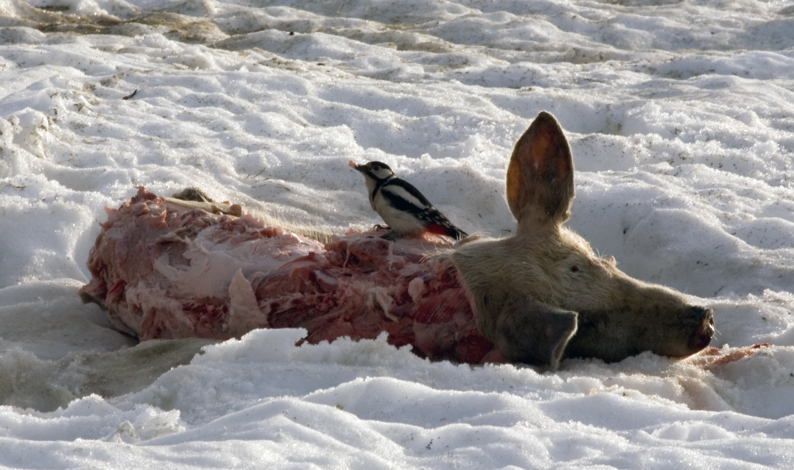 Great Spotted Woodpecker (Dendrocopos major) on ripped pig.